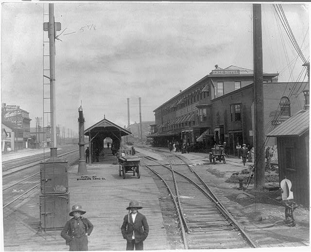 Union Depot, Dunkirk, N. Y. Date Created Published- between ca. 1890 and ca. 1900